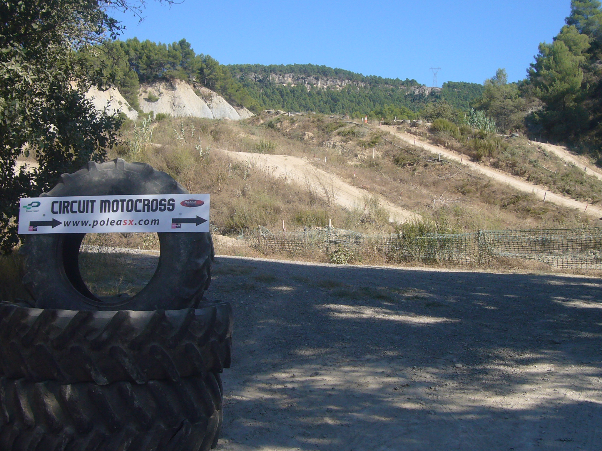 Motocross track, in Parcmotor Castellolí